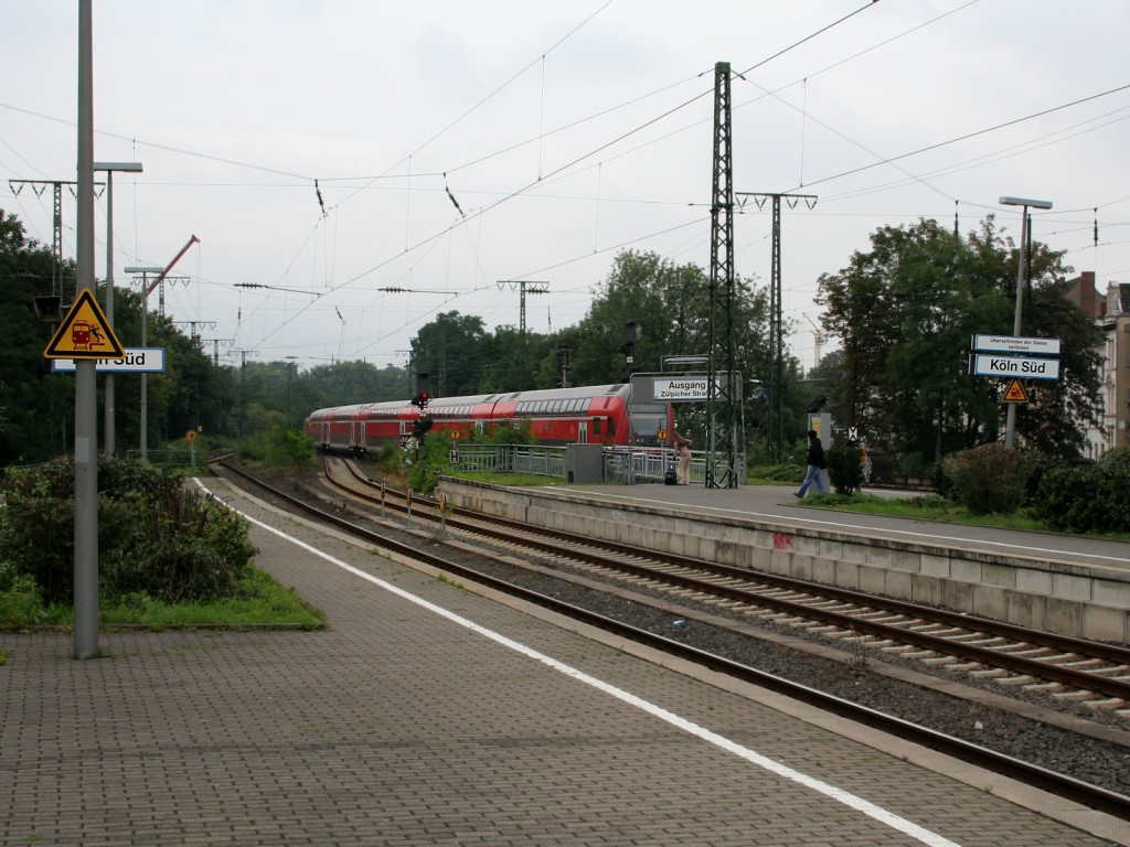 Cologne South railway station